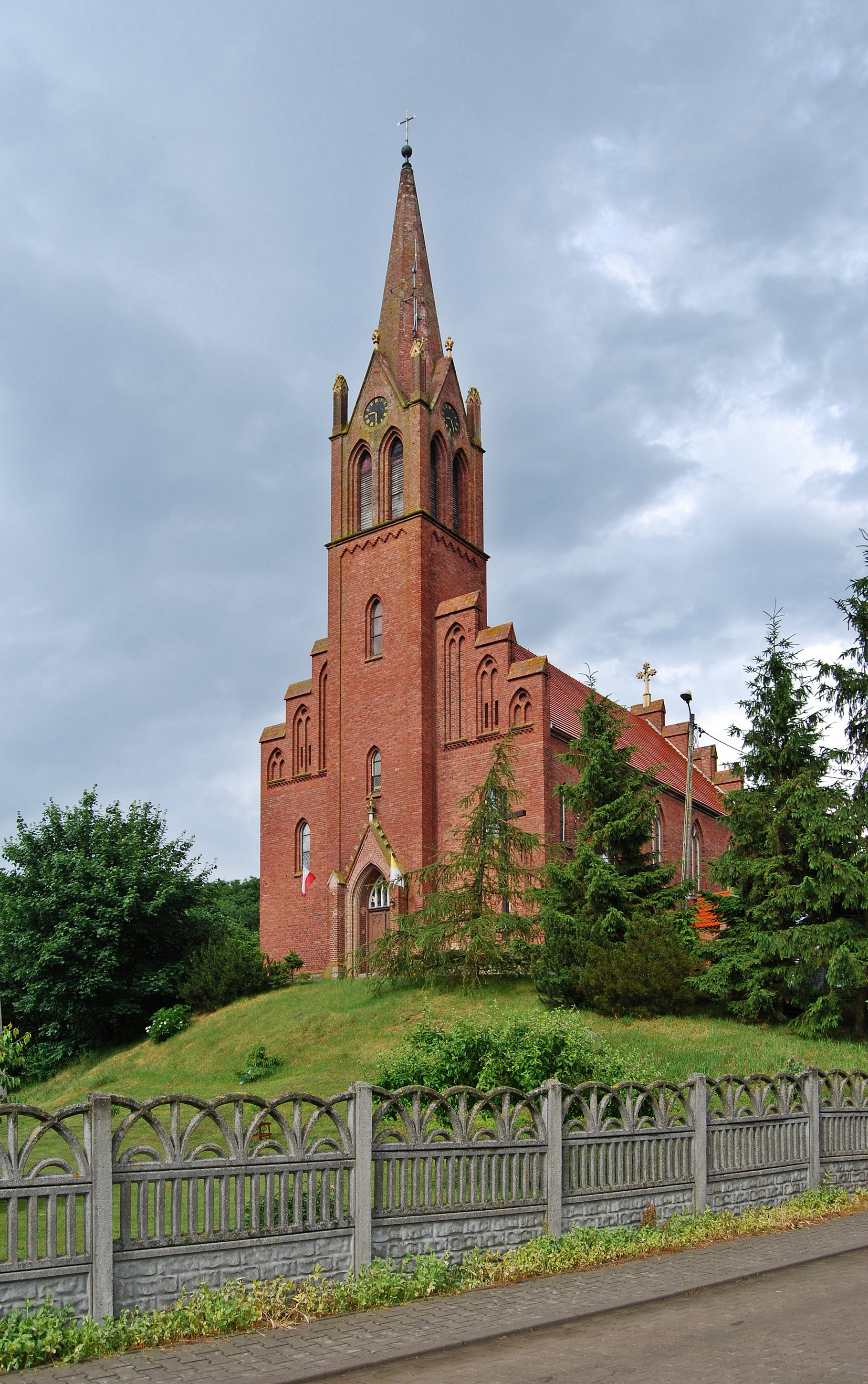 Our Lady of Jasna Góra church in Lubin, Poland.